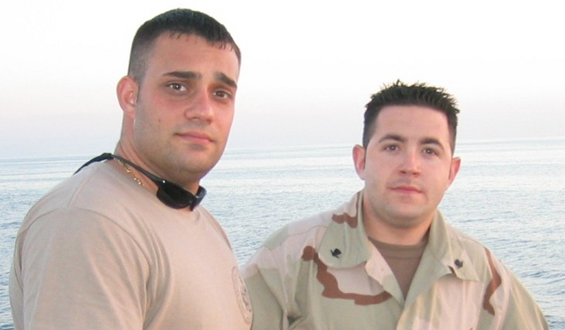 Picture of Petty Officers Nathan Bruckenthal and Ruggiero